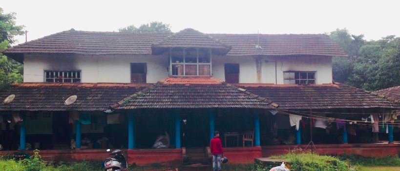 Vitla Palace as of 2014